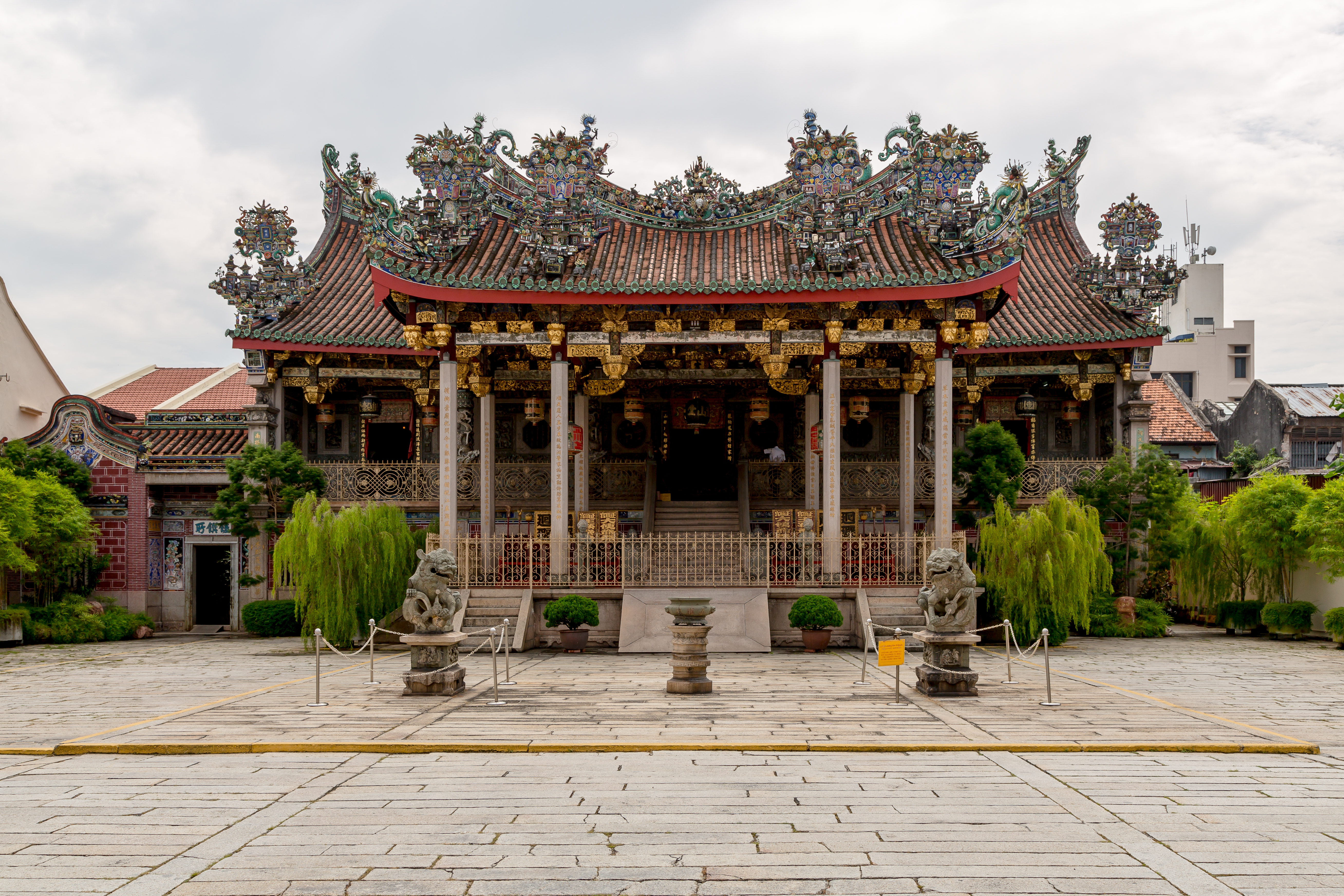 Penang, Malaysia: Leong San Tong Khoo Kongsi Clanhouse.